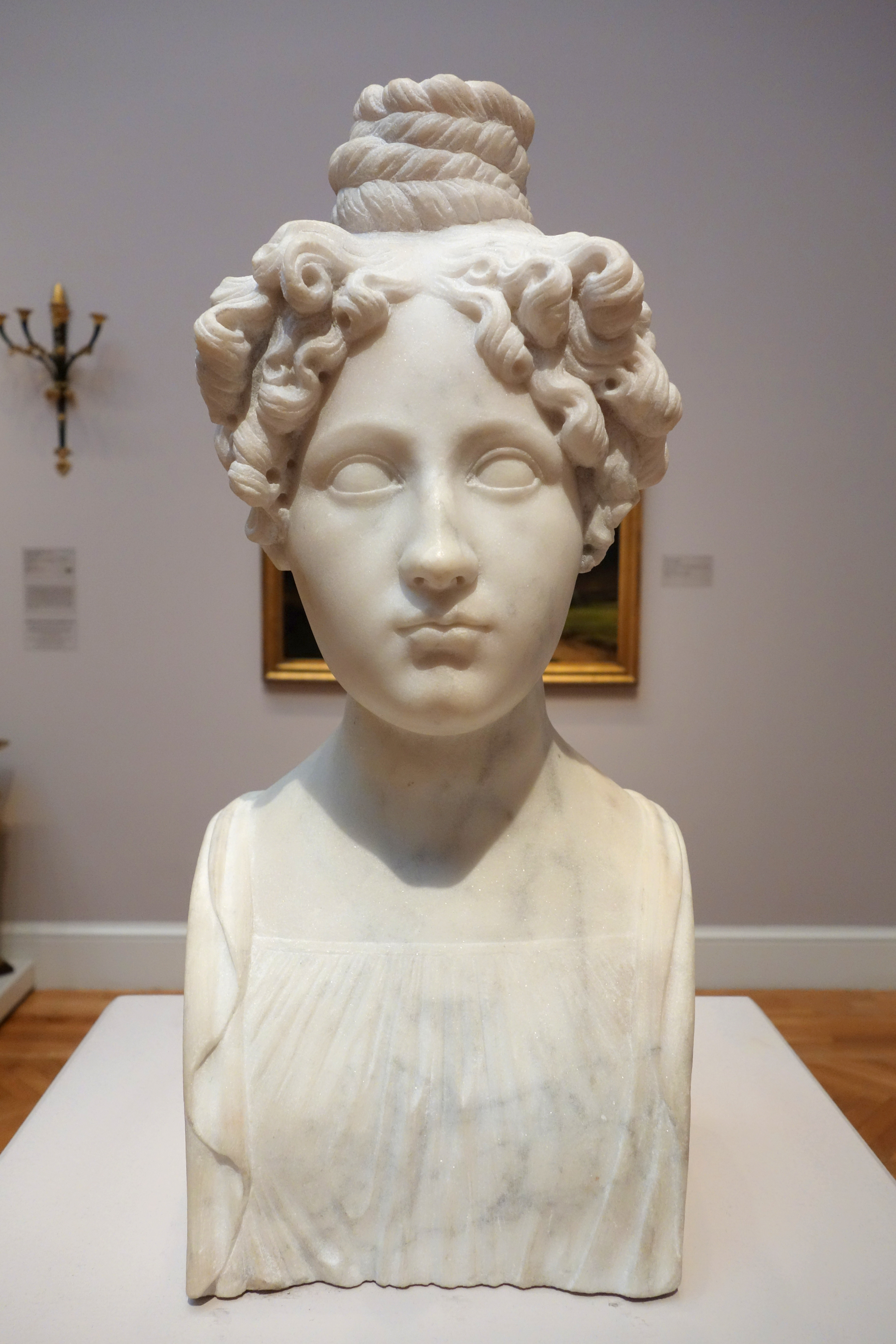 Exhibit in the California Palace of the Legion of Honor, San Francisco, California, USA. This work is old enough so that it is in the public domain.